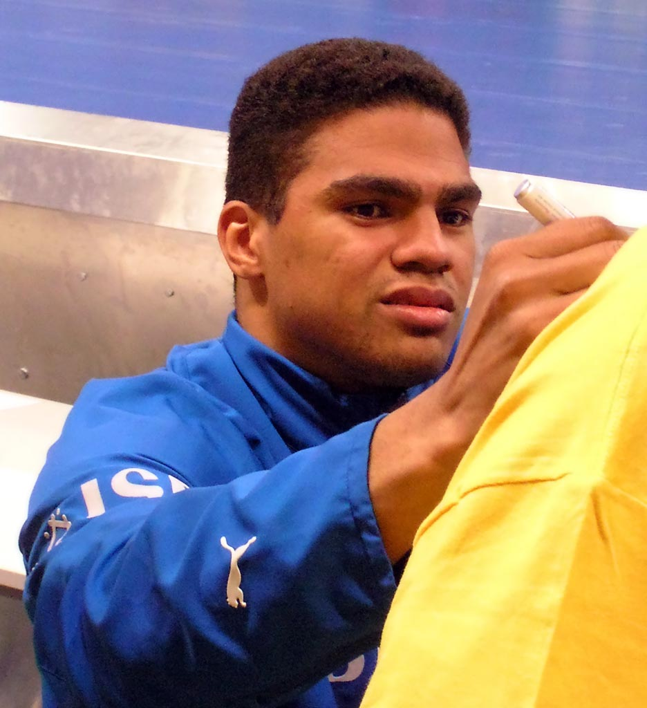 Daniel Narcisse, on April 18th 2007 in Mannheim, SAP-Arena (Germany)